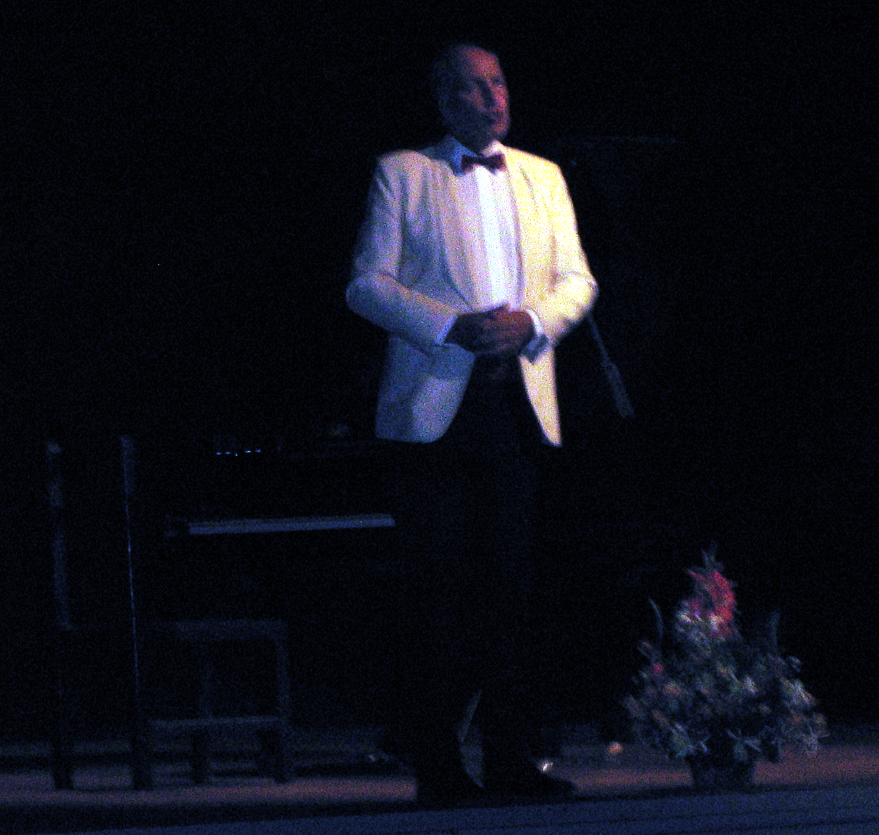 Antony Peebles Taken by SteveRwanda